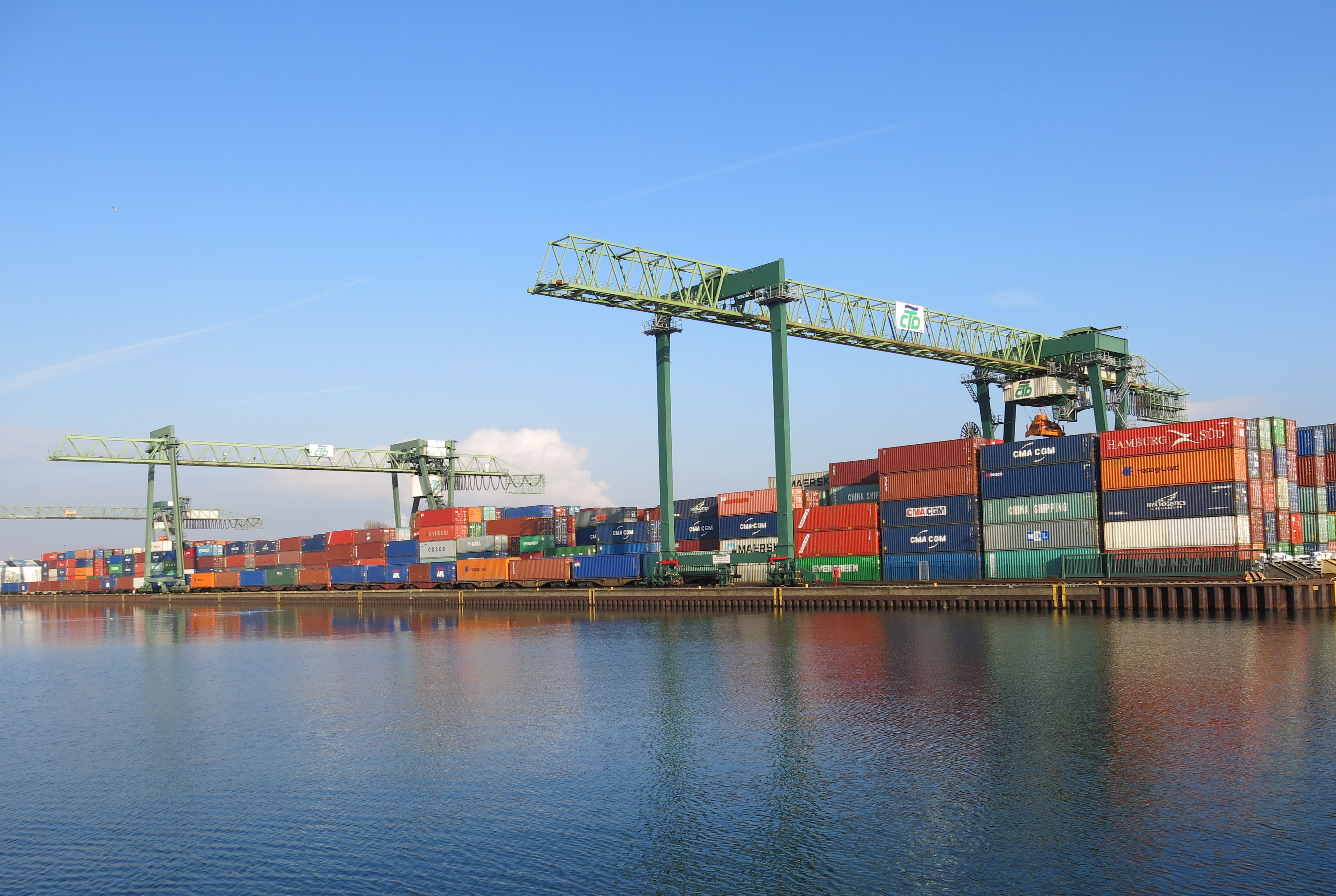 Port of Dortmund, Container terminal